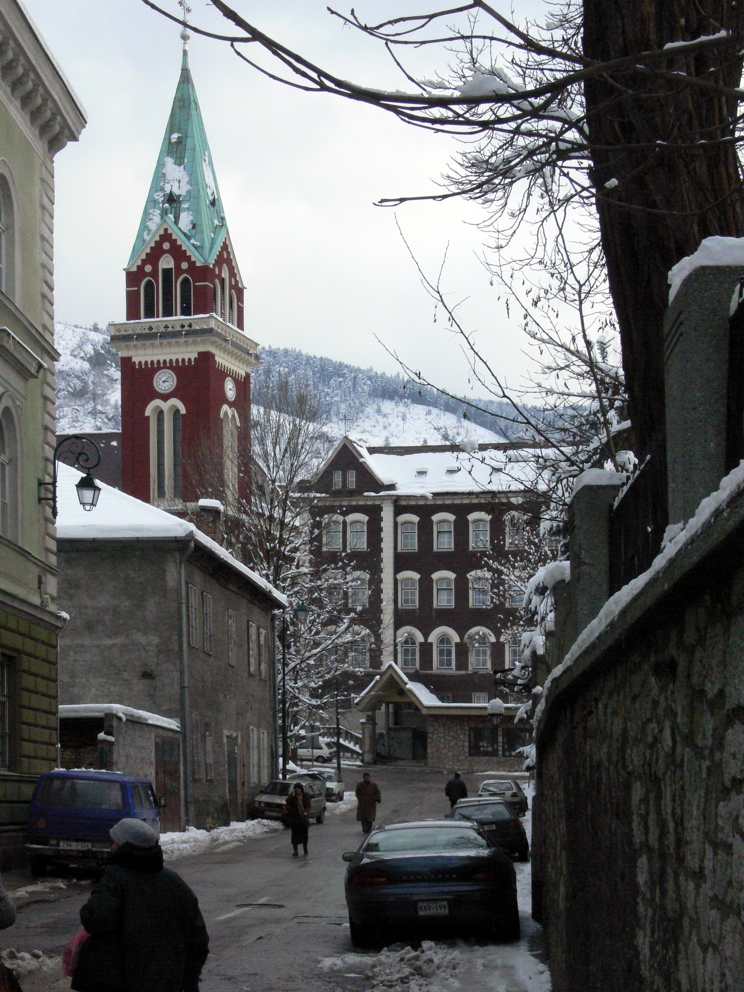 The Church "St. Antonius" near the Franciscan monastery in Sarajevo.